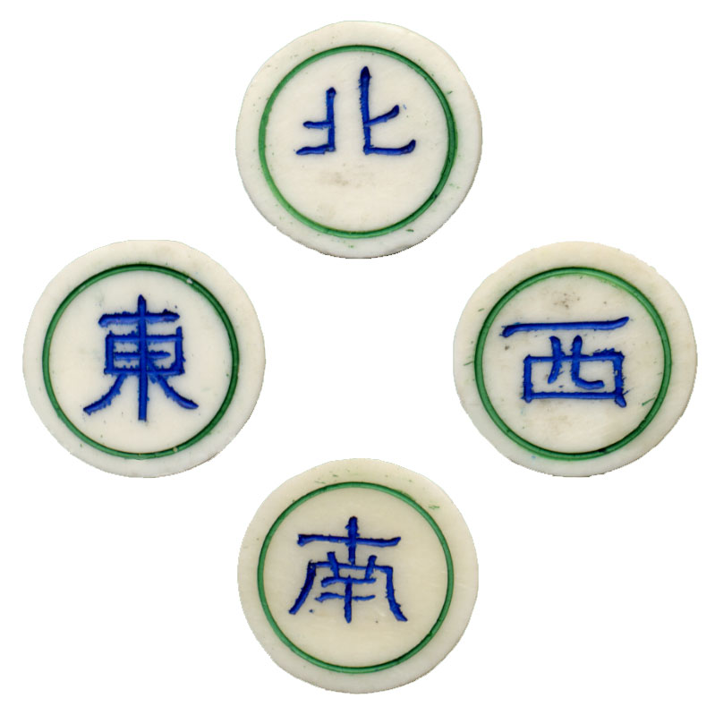 The discs show symbols of winds in the game of Majiang (Mah Jong)